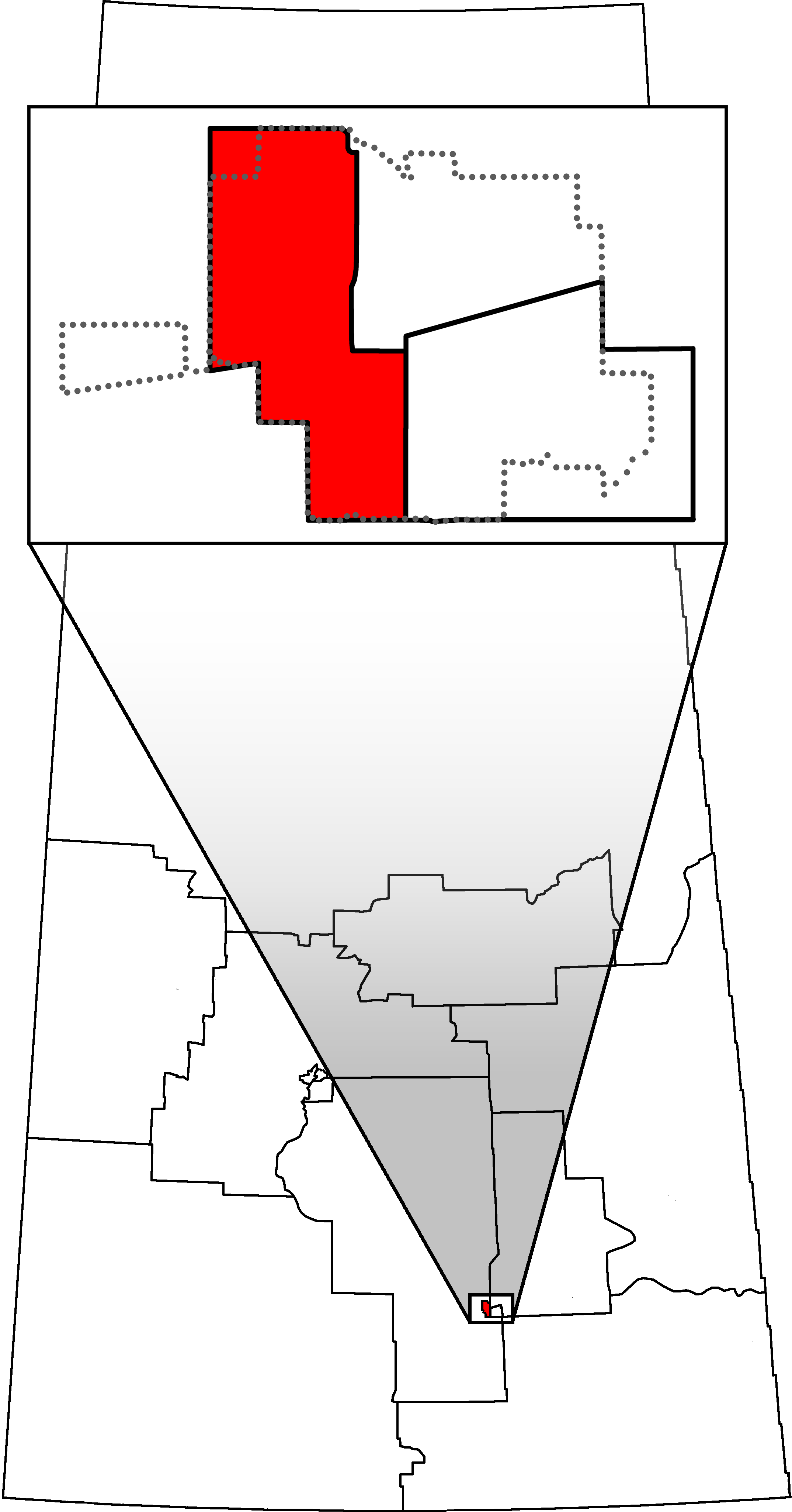 Federal Electoral District in Saskatchewan, Canada as of the 2013 Representation Order. Includes closeup of riding with Regina City limits in dotted line.